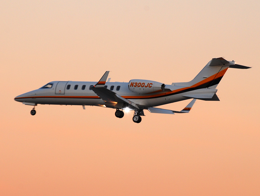 Las Vegas - McCarran International (LAS / KLAS) USA - Nevada, January 27, 2011 Photo: Tomás Del Coro